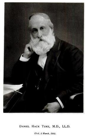 Daniel Hack Tuke